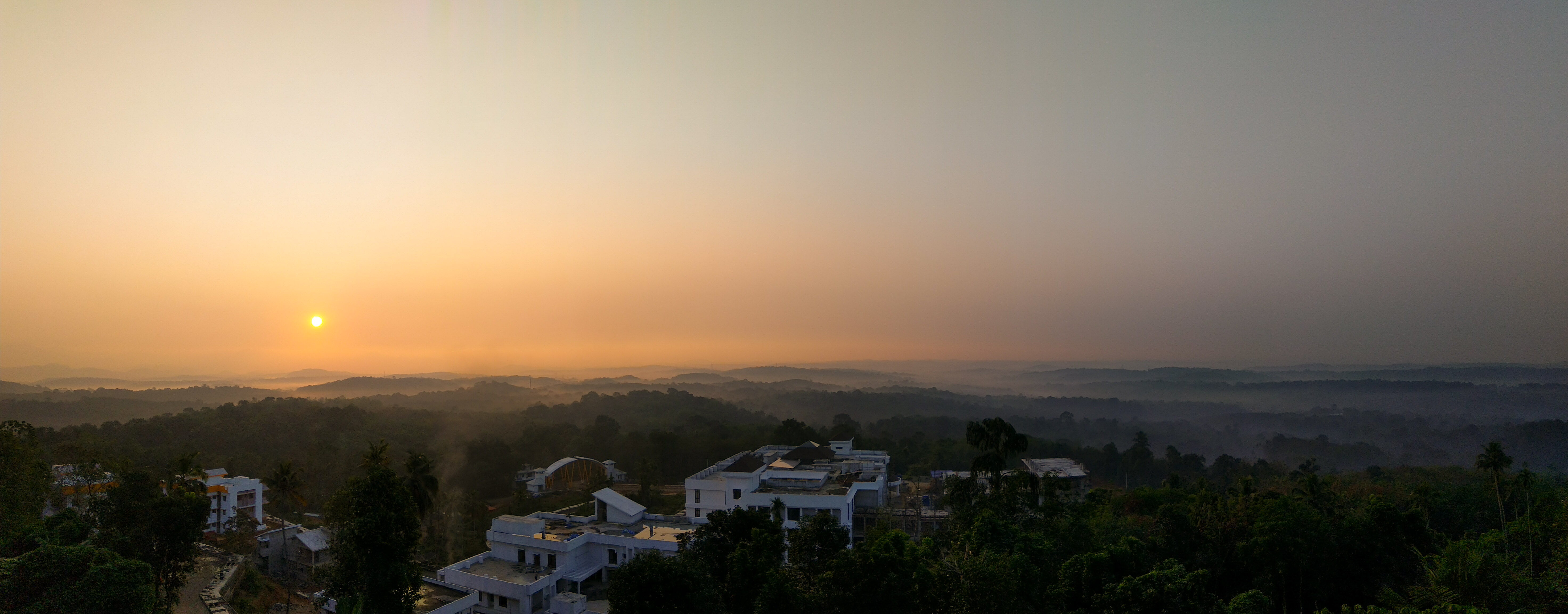 View of permanent campus of IIIT Kottayam at Valavoor, Pala,Kottayam, Kerala.